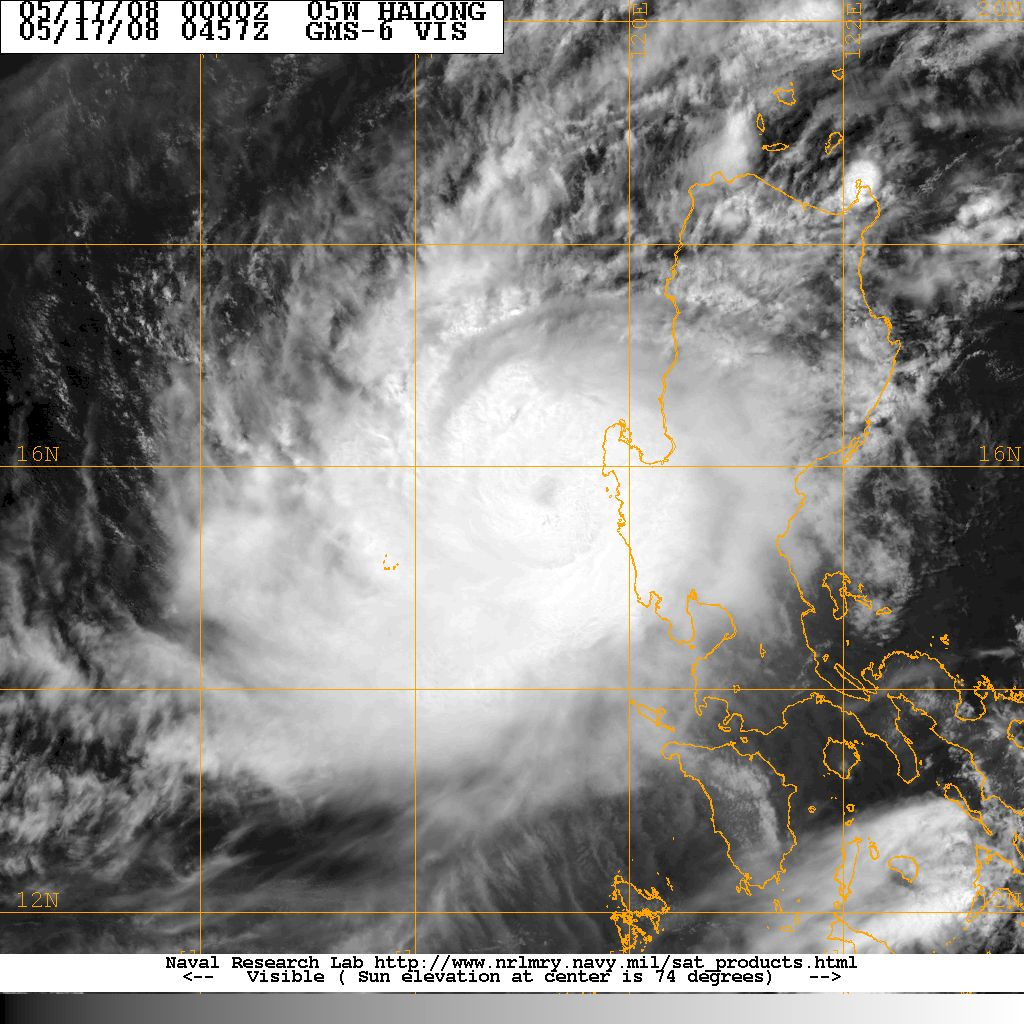 Severe Tropical Storm Halong near peak intensity